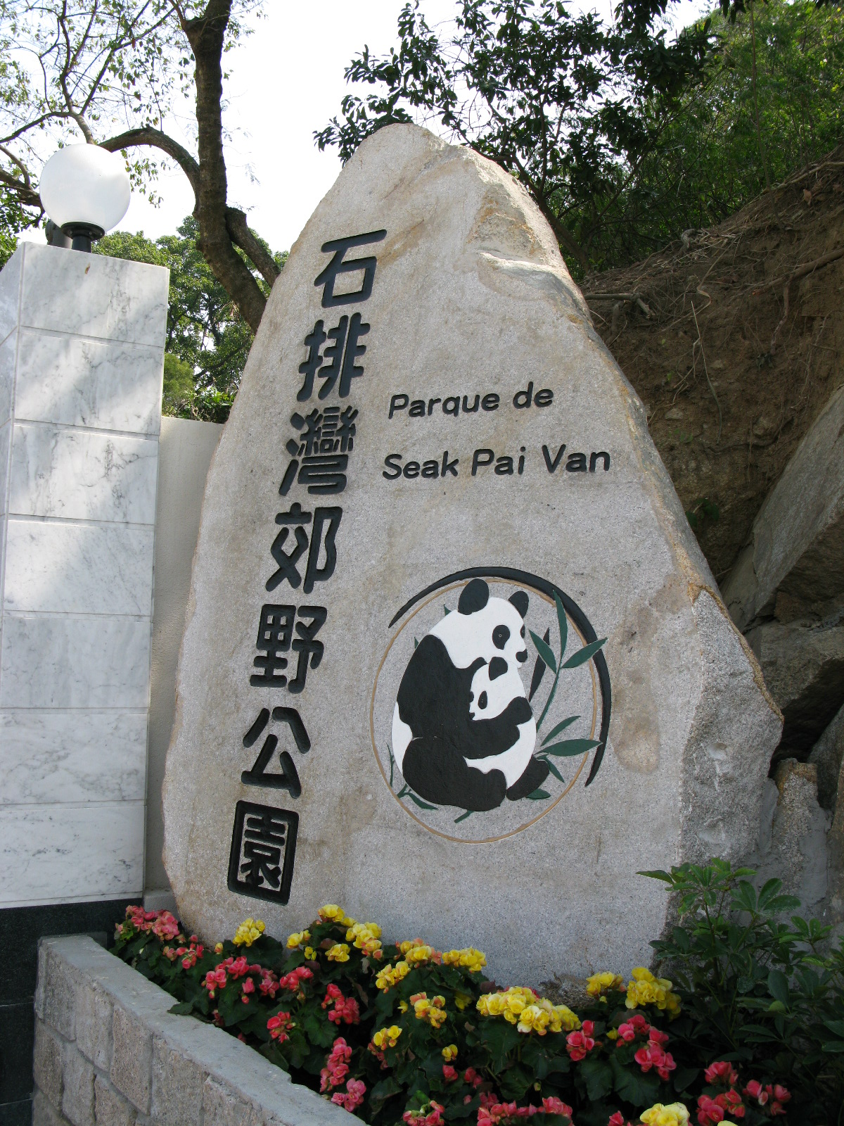 Seac Pai Van Park new entrance, Coloane, Macao